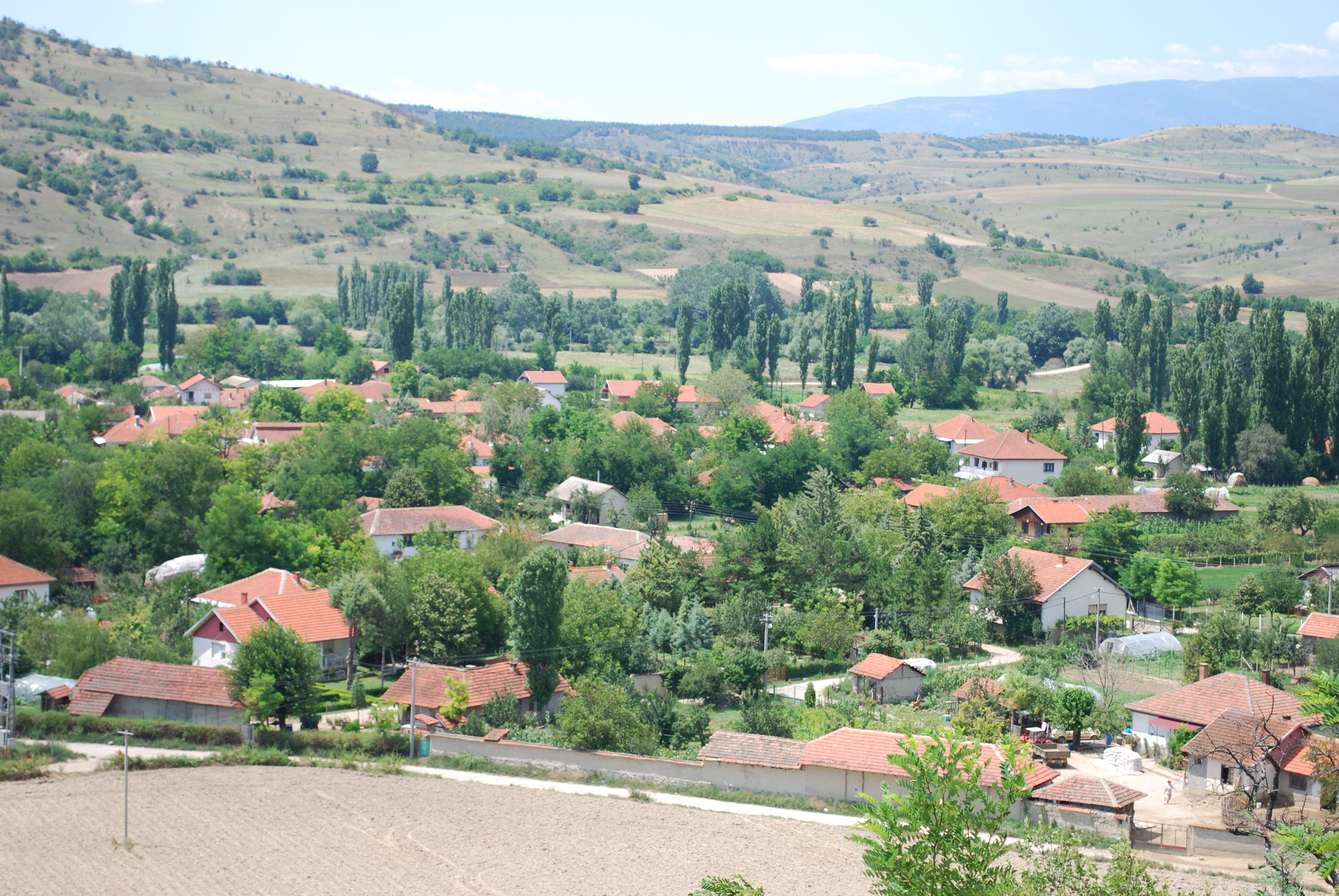 View on Gorno Konjari, Skopje, Macedonia